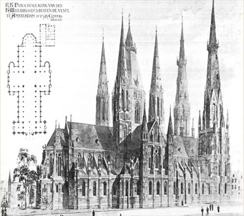 Design of the Sint-Willibrorduskerk buiten de Veste by Pierre Cuypers ca. 1870. The Church was build in 1871 - 1873. Demolished in 1970. Amsterdam, The Netherlands.